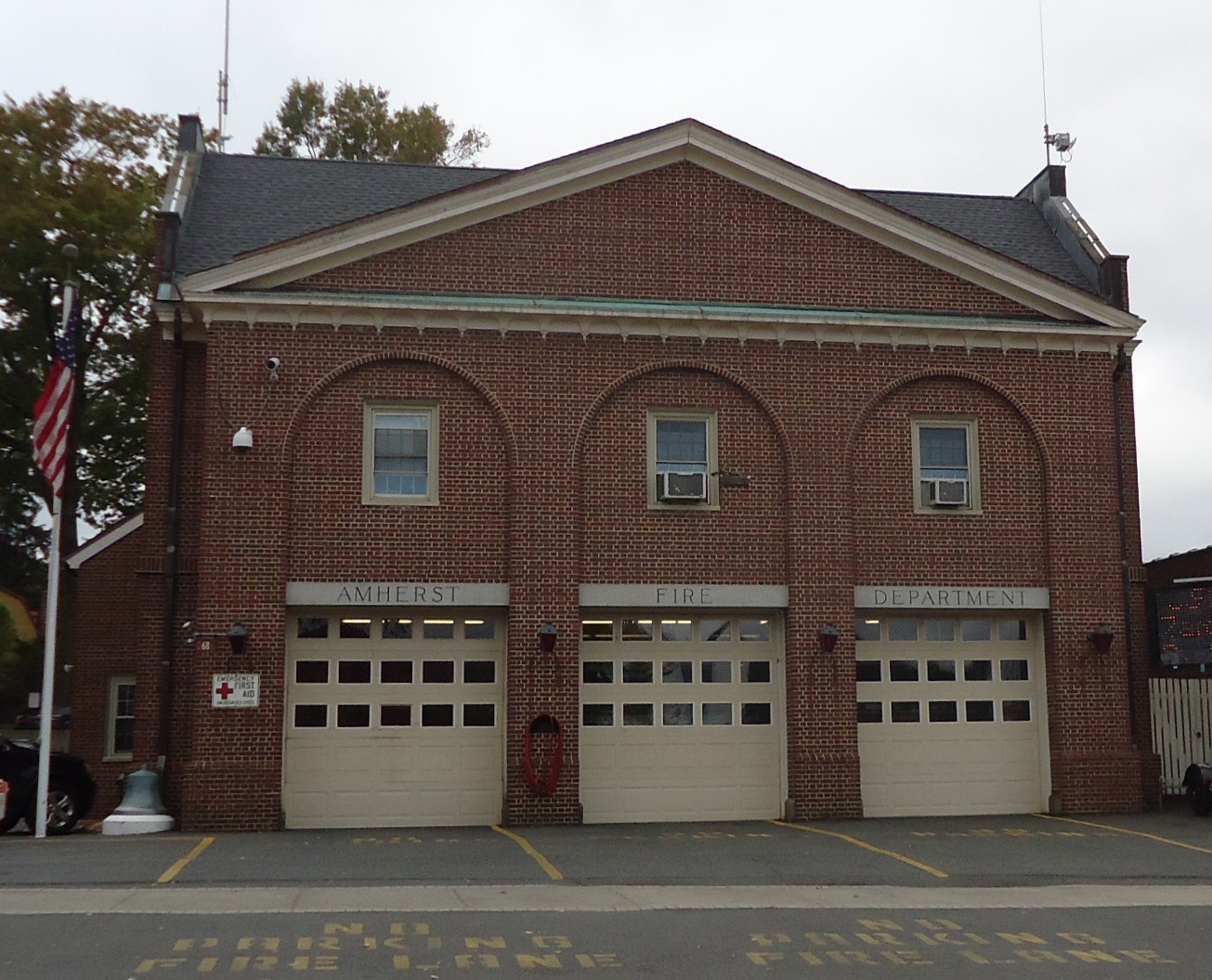 Fire station at Amherst, Massachusetts.